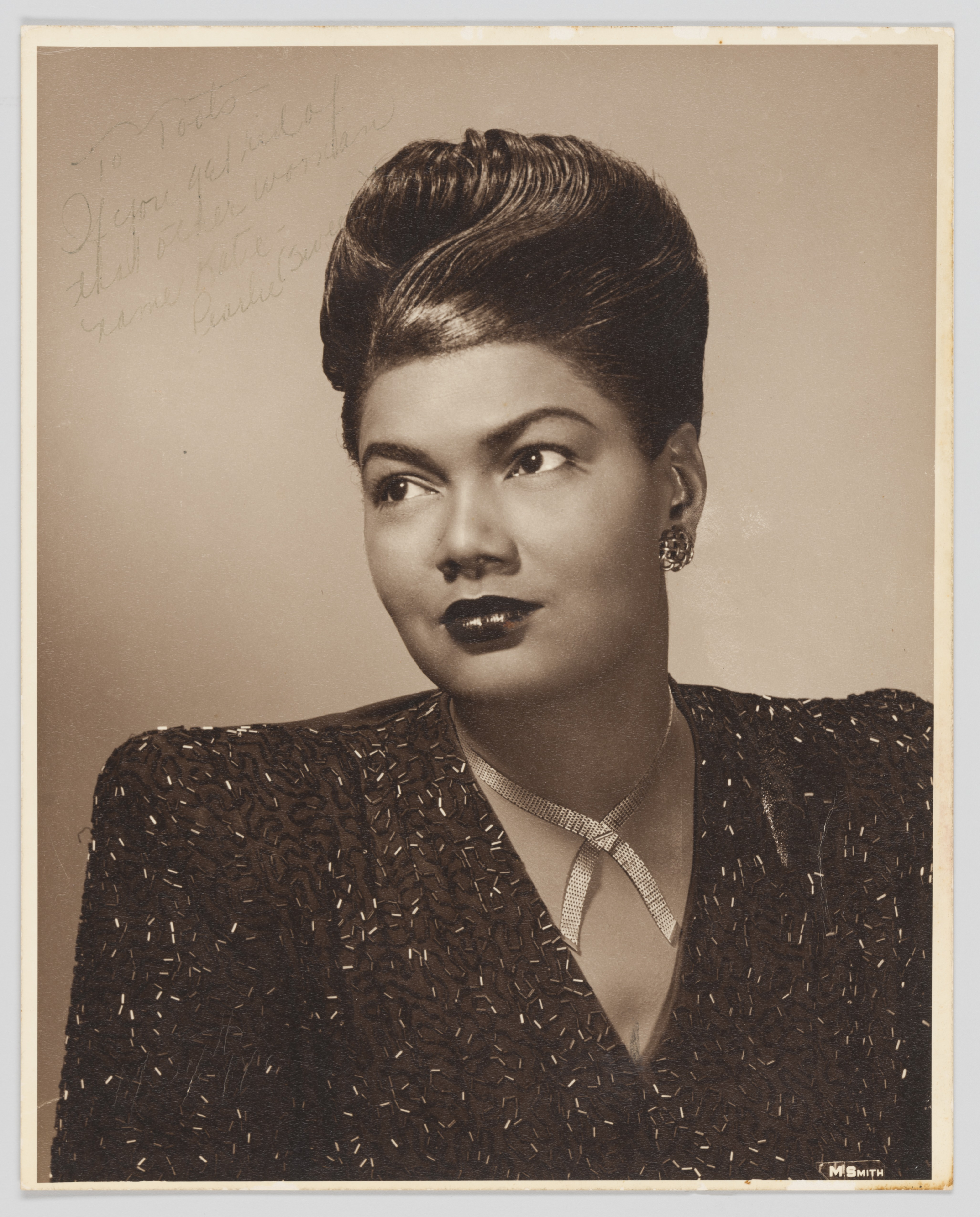 A black and white photographic portrait of Pearl Bailey. In the top left-hand corner of the photo is a cursive inscription handwritten in pencil, signed by the actress. Below and to the right of the writing is a woman. She is looking over her right shoulder and is wearing a black, patterned top with earrings and a necklace. Collection of the Smithsonian National Museum of African American History and Culture, ca. 1960. Silver and photographic gelatin on photographic paper. Photograph by Marvin Smith, American, 1910 - 2003. [nmaahc_2013.118.182.3]